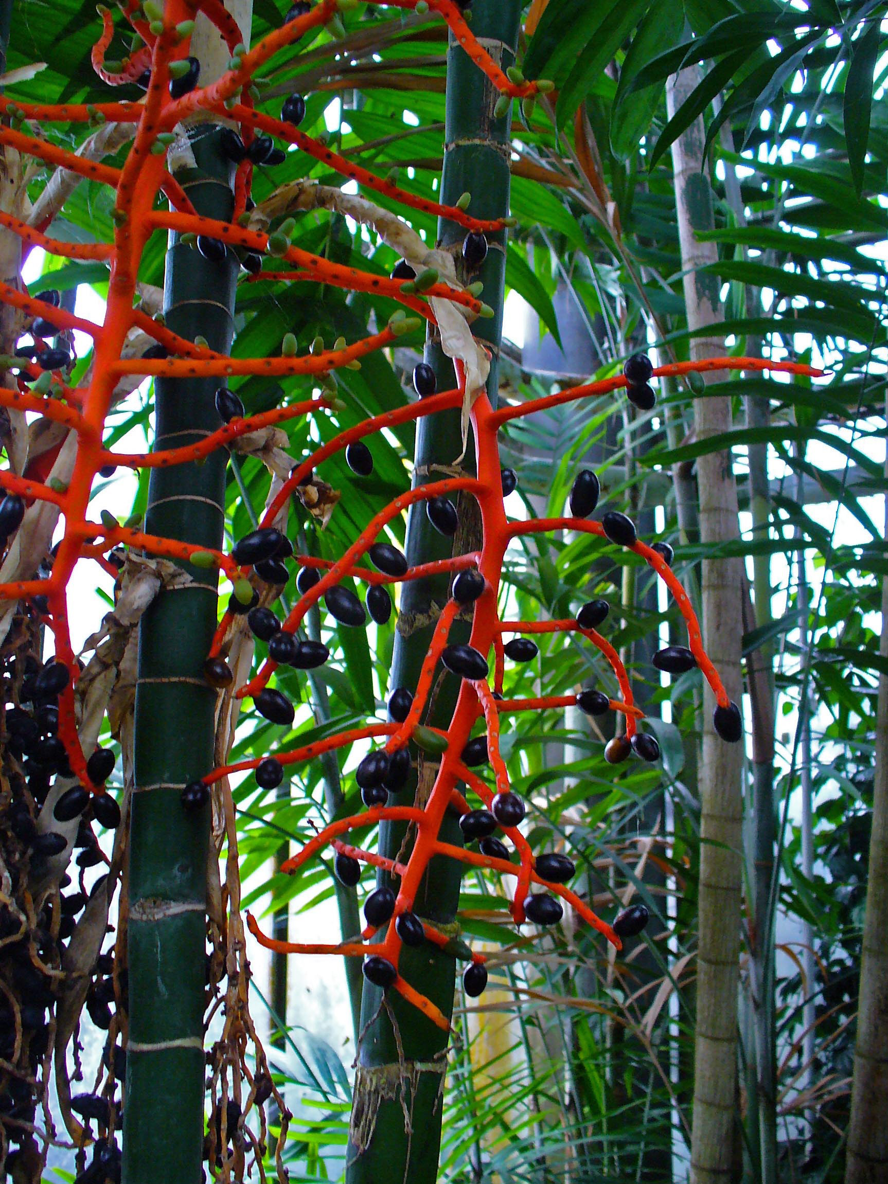 Chamaedorea tepejilote, Arecaceae, fruits; Botanical Garden KIT, Karlsruhe, Germany.